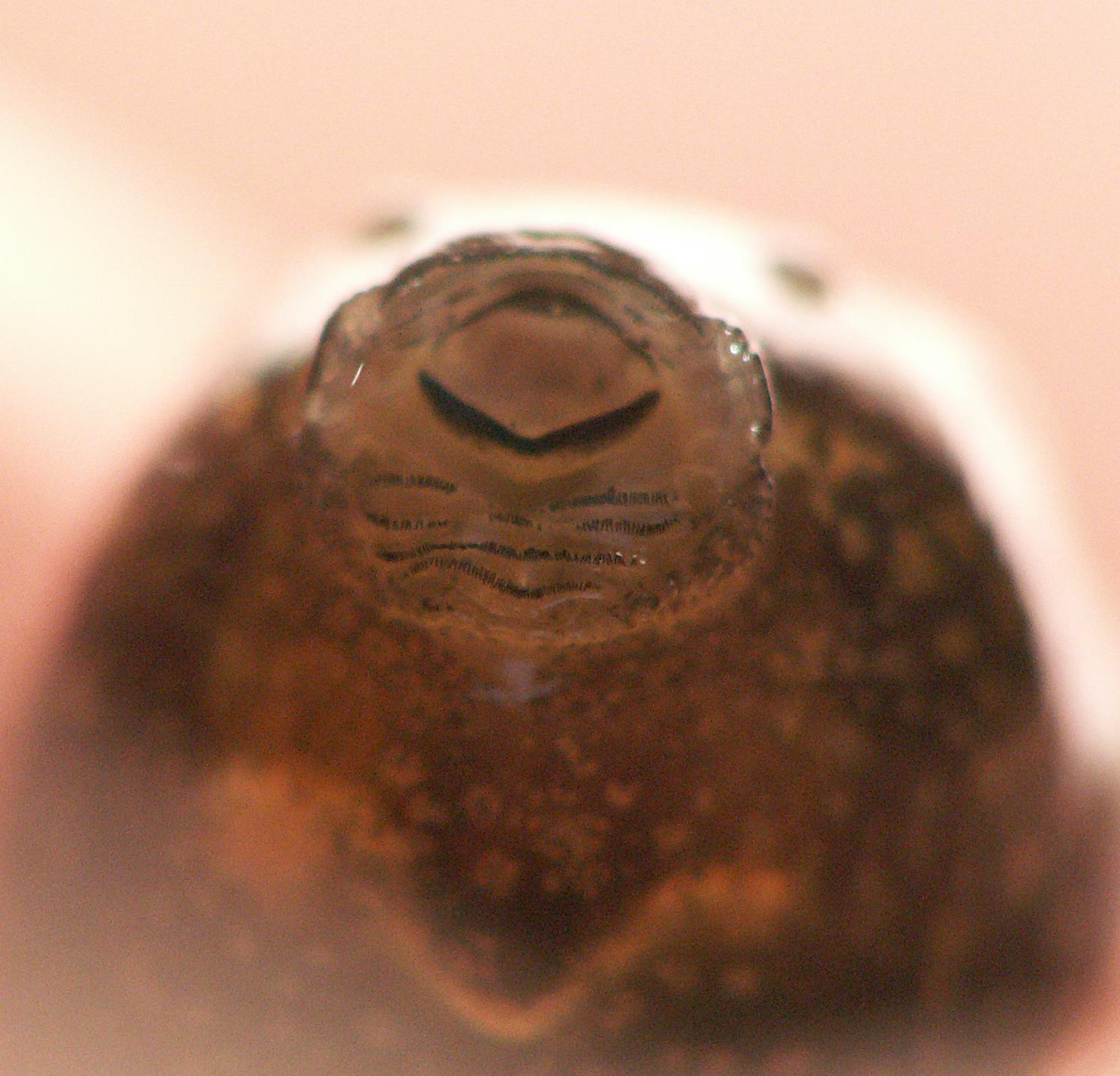 The ridges on the mouth of the frog larva are typical for the frog species, the larva has to be held by the tail belly up and inspected or photographed. Rana temporaria has four rows on the underlip, Rana arvalis three ( ISBN 90 5210 419 00 ). Taken in Arnhem the Netherlands